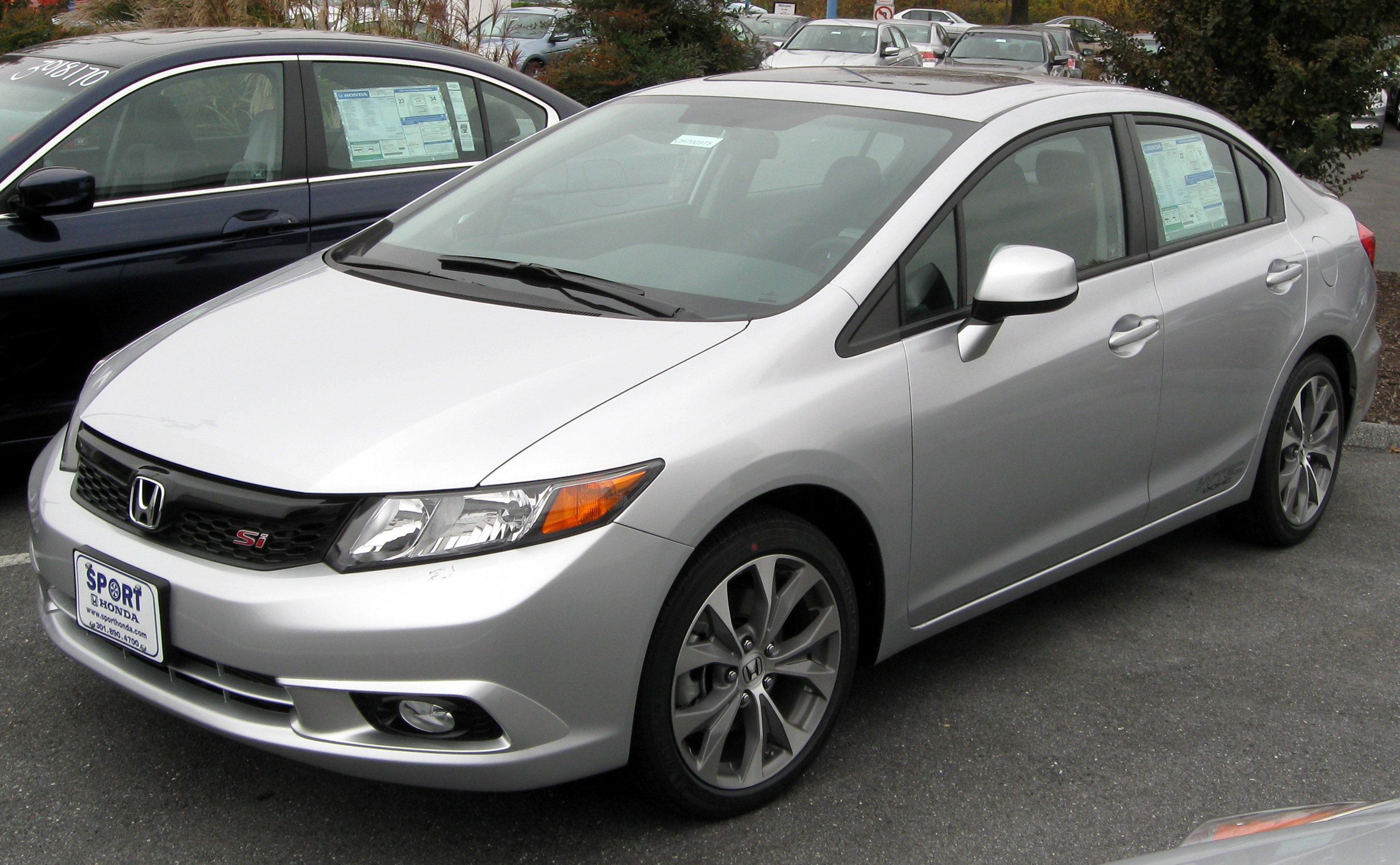 2012 Honda Civic photographed in Silver Spring, Maryland, USA.